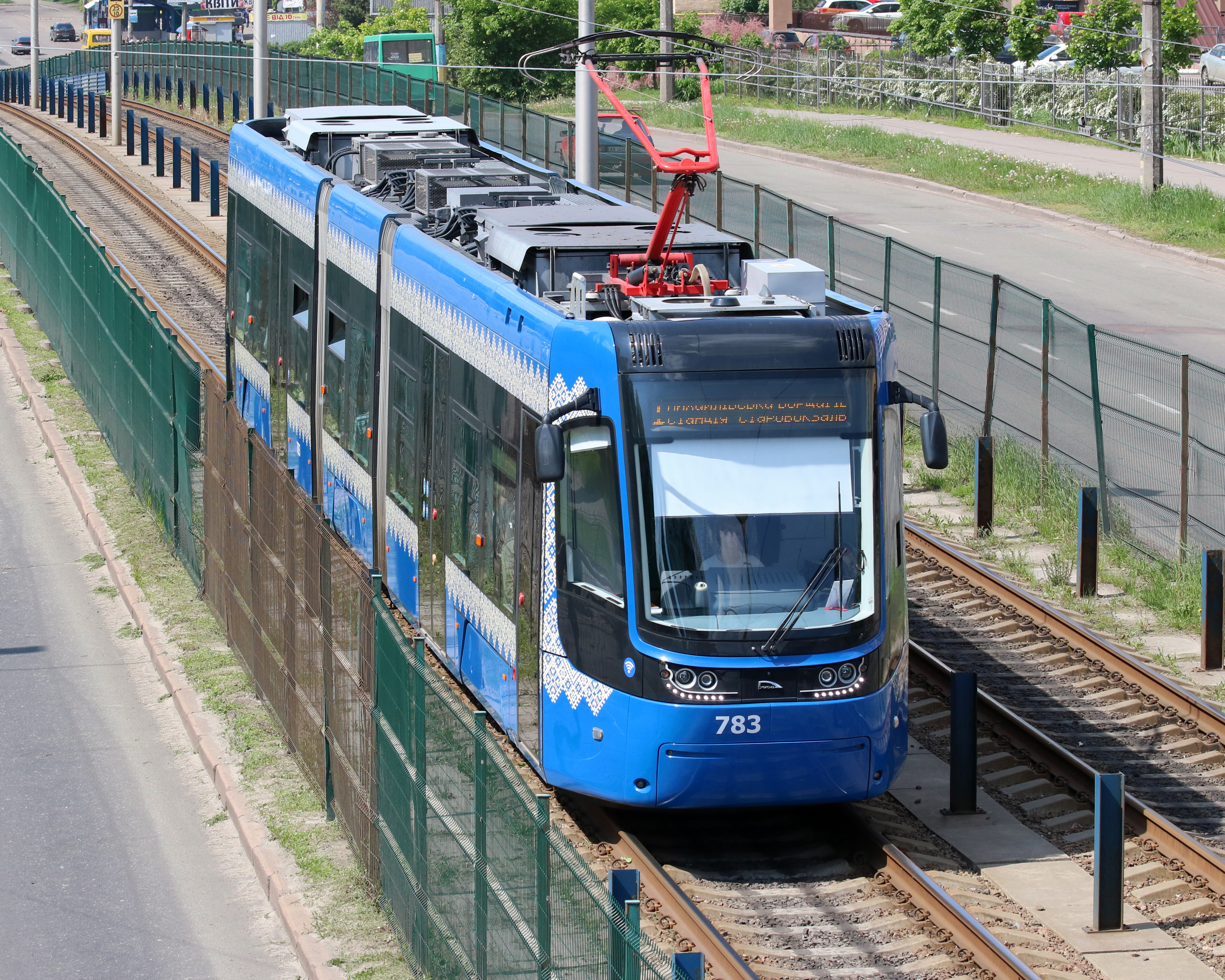 Kyiv Express Tram Pesa Fokstrot 71-414K #783. Pravoberezhna Line